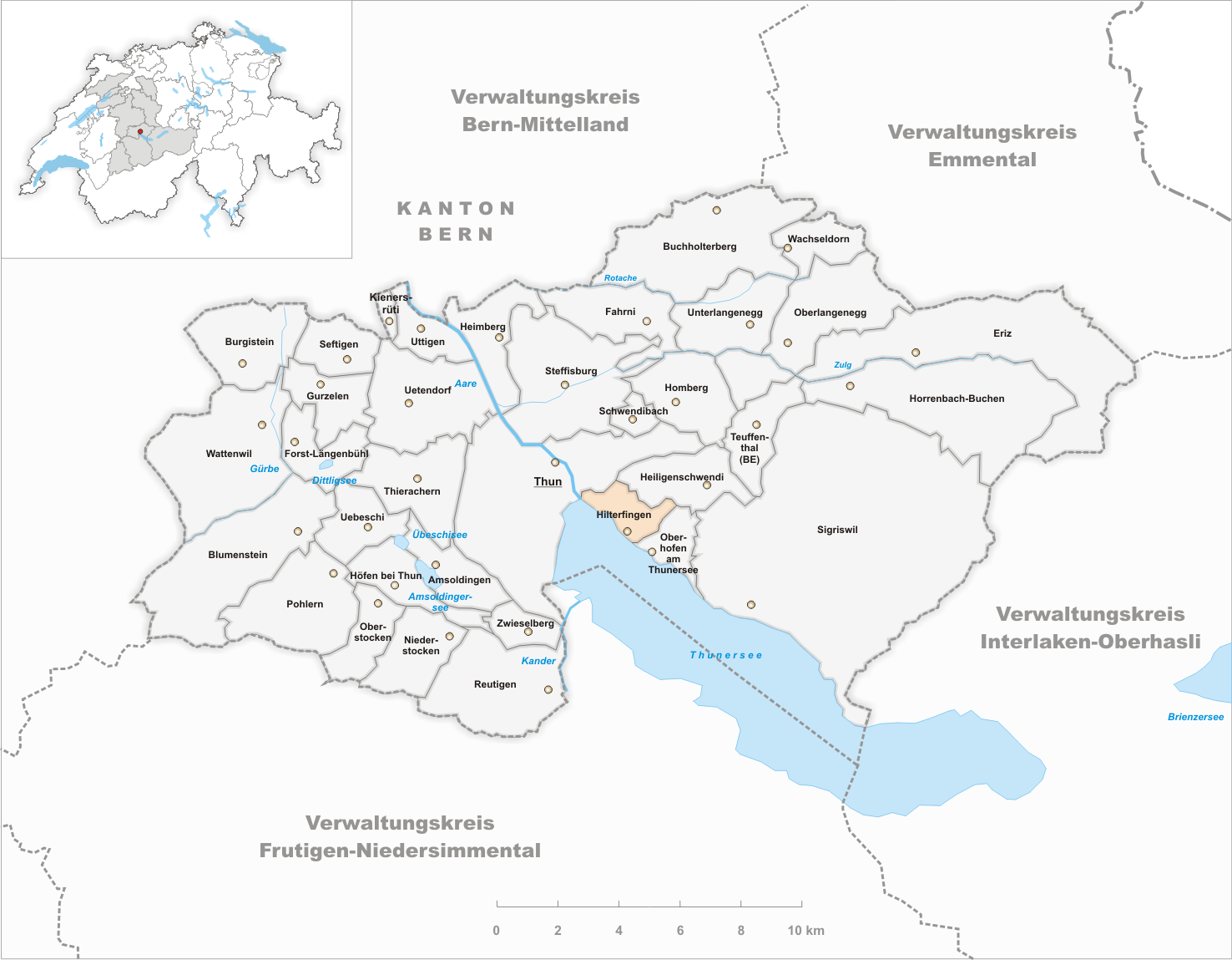 Municipality Hilterfingen